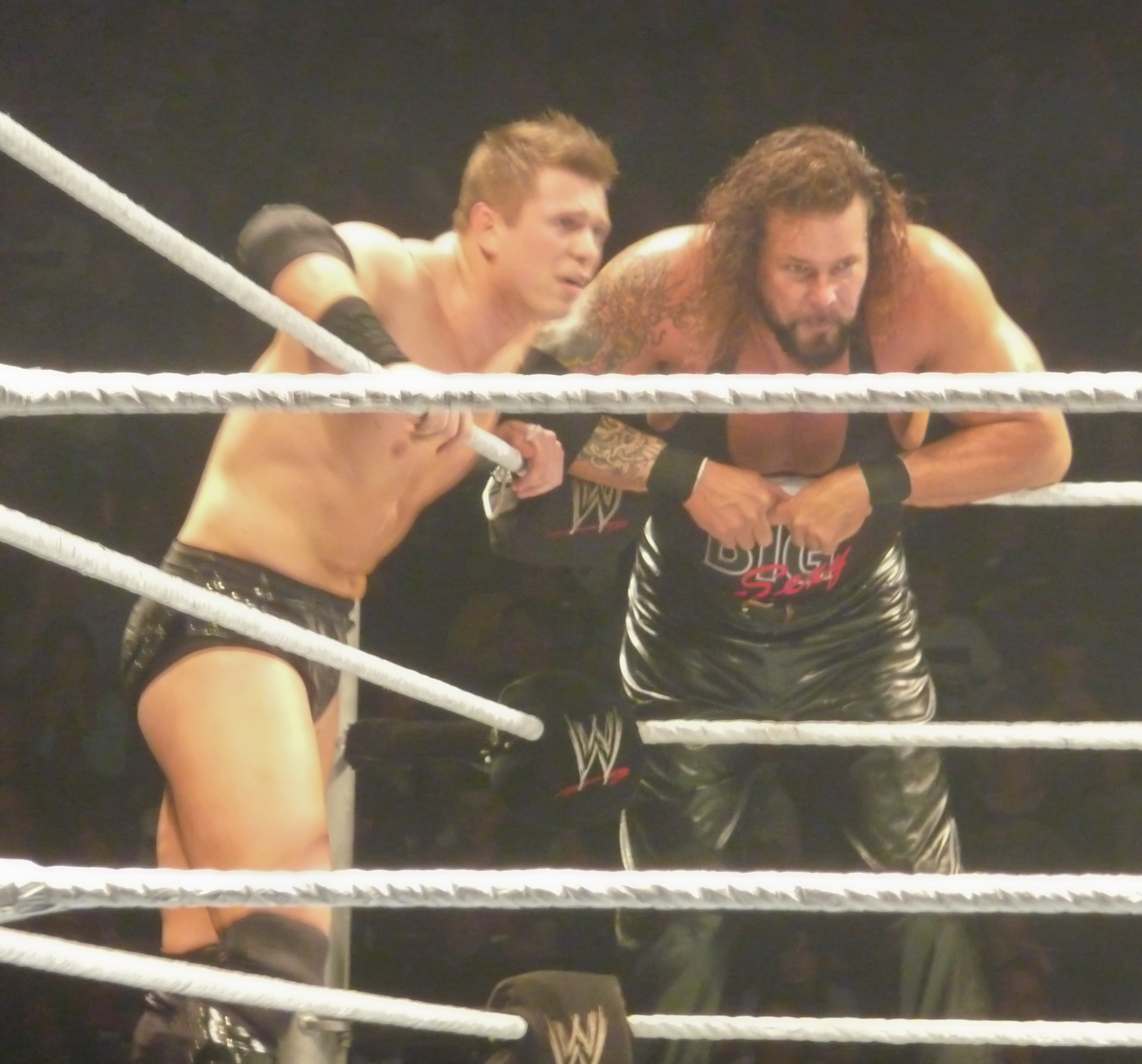 The Miz, R-Truth & Kevin Nash vs John Cena, Zack Ryder & Kofi Kingston